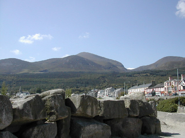 Newcastle Co, Down. Where the Mountains of Mourne sweep down to the sea